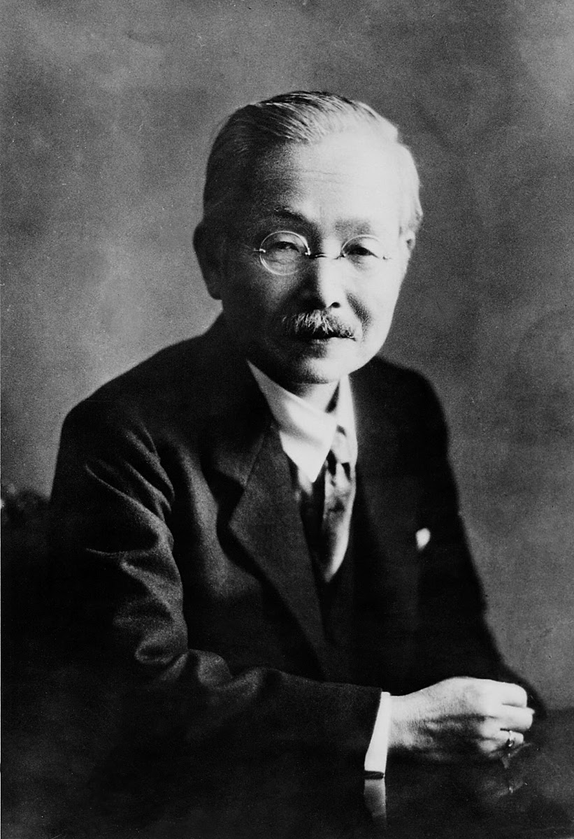 Picture of Kikunae Ikeda